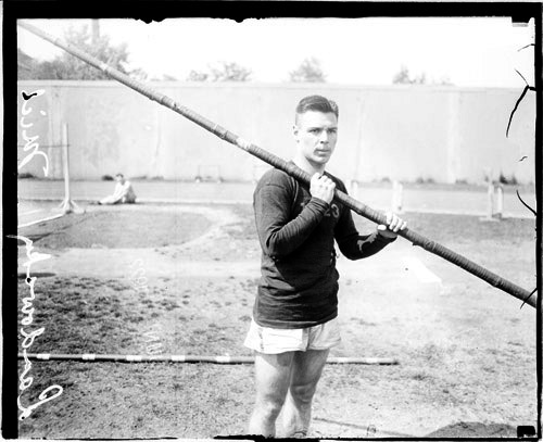 Informal full-length portrait of Michigan track and field athlete Landowsky holding a pole used in pole vaulting, standing on the field at Stagg Field, Chicago.